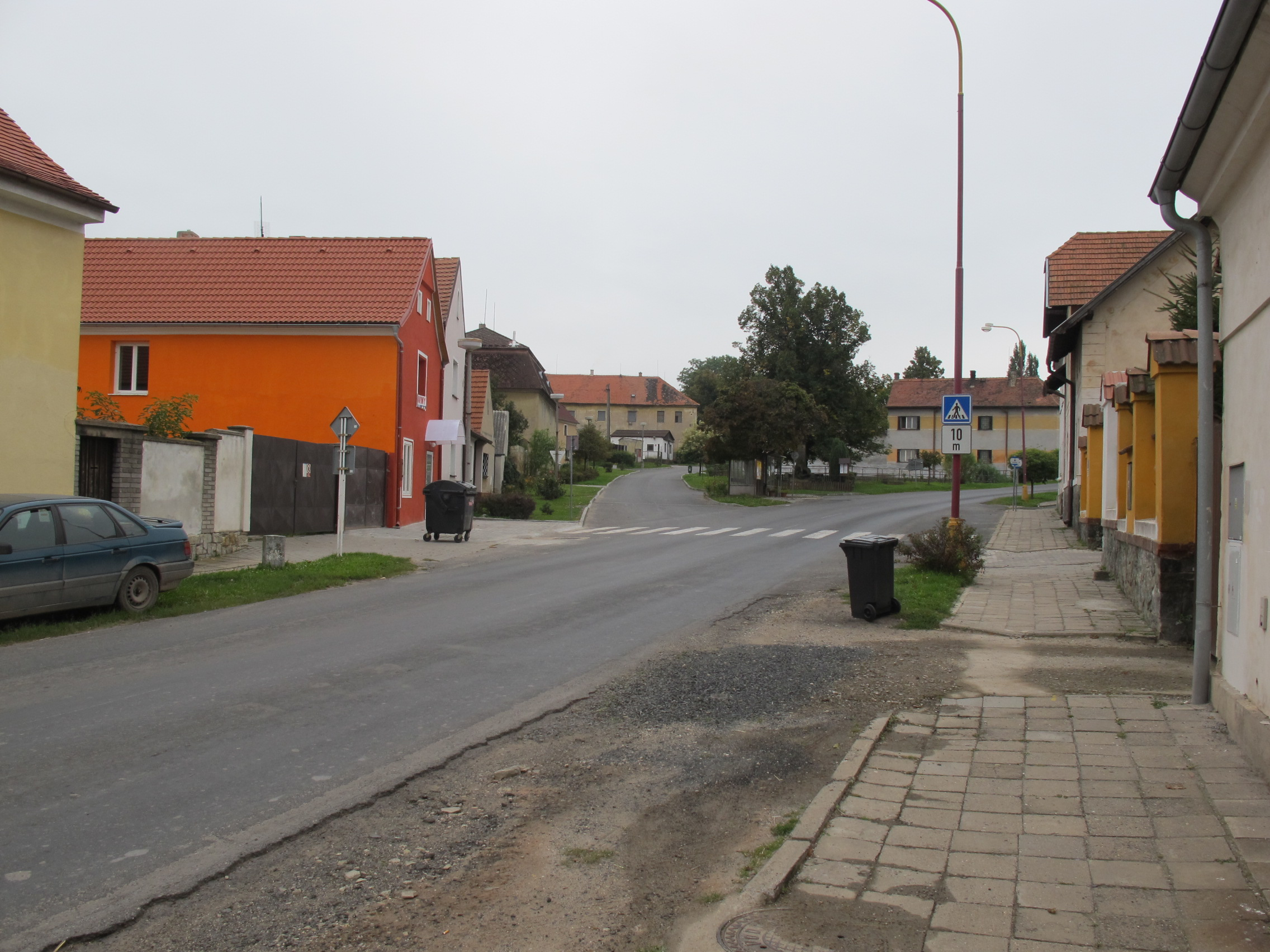 The village square in Líšťany, Louny District, Czech Republic